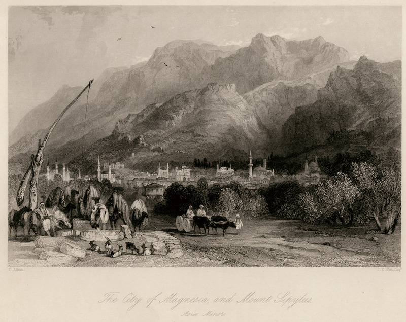 Illustration from Constantinople and the Scenery of the Seven Churches of Asia Minor illustrated…, With an historical Account of Constantinople, and Descriptions of the Plates…, London/Paris, Fisher, Son & Co. (1836-38), by Robert Walsh and Thomas Allom